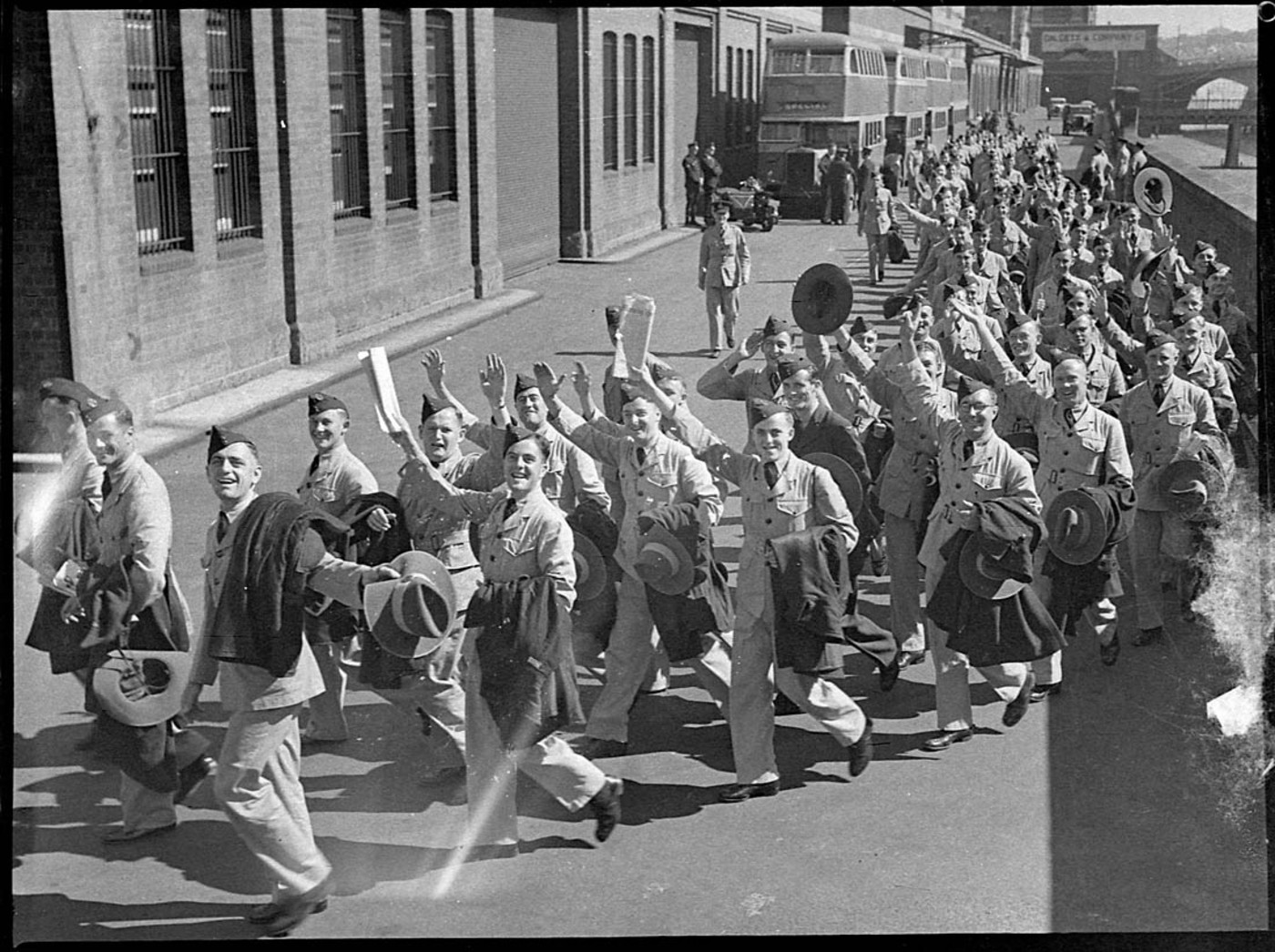 Empire Air Training Scheme Airmen leave by "Awatea" for Canada